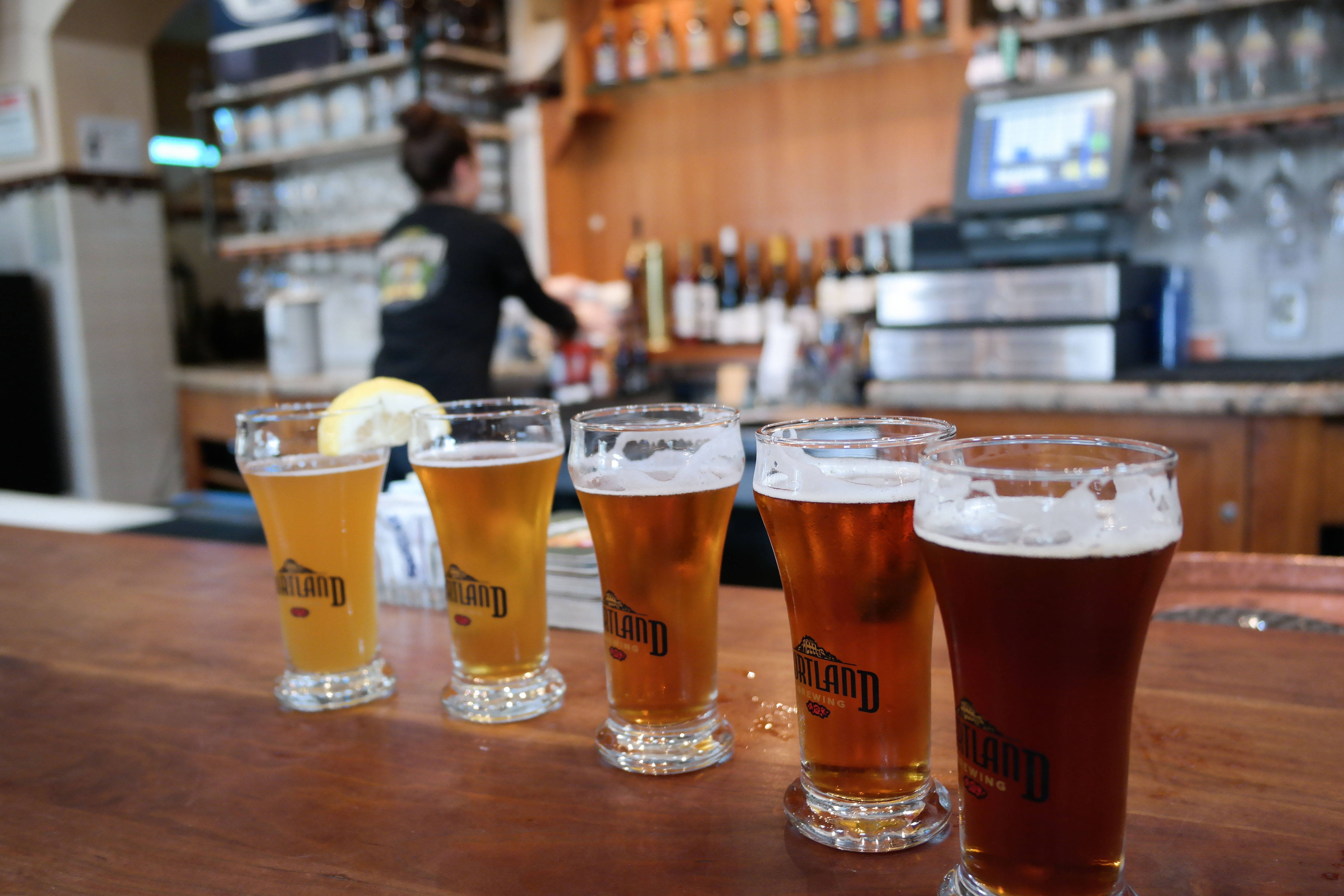 Tasting at Portland Brewing Company, including Bavarian Style Weizen, Rose Hip Gold Ale, MacTarnahan’s Amber Ale, Imperial IPA, and Snow Cap Ale.